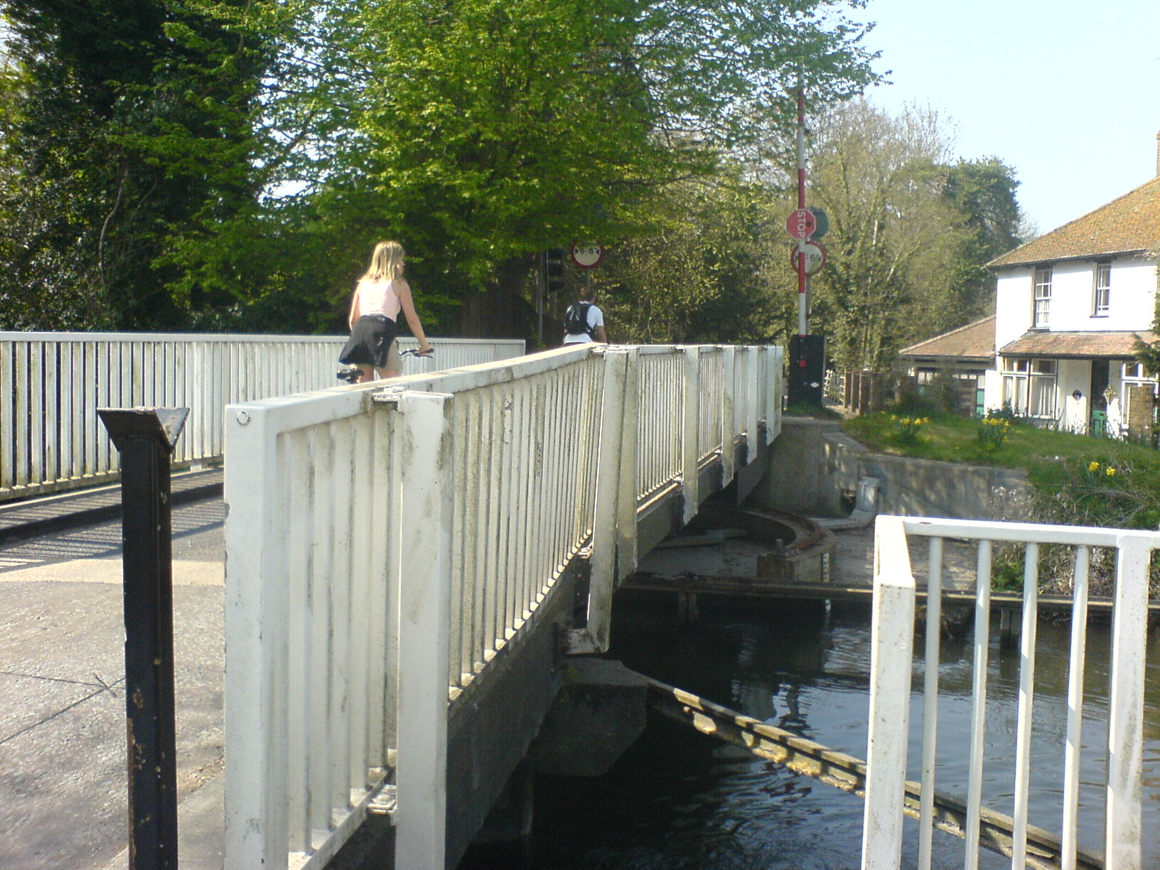 Theale Swing Bridge